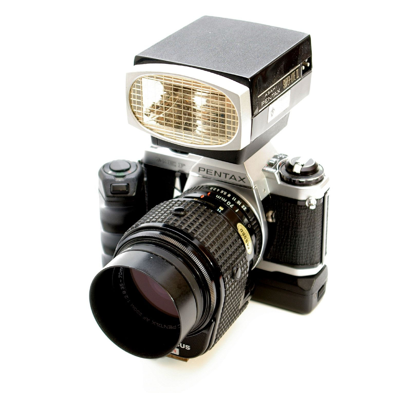 Thought to be the world's first production autofocus SLR camera. Here fitted with autowinder and flash (a total of 12 batteries!)